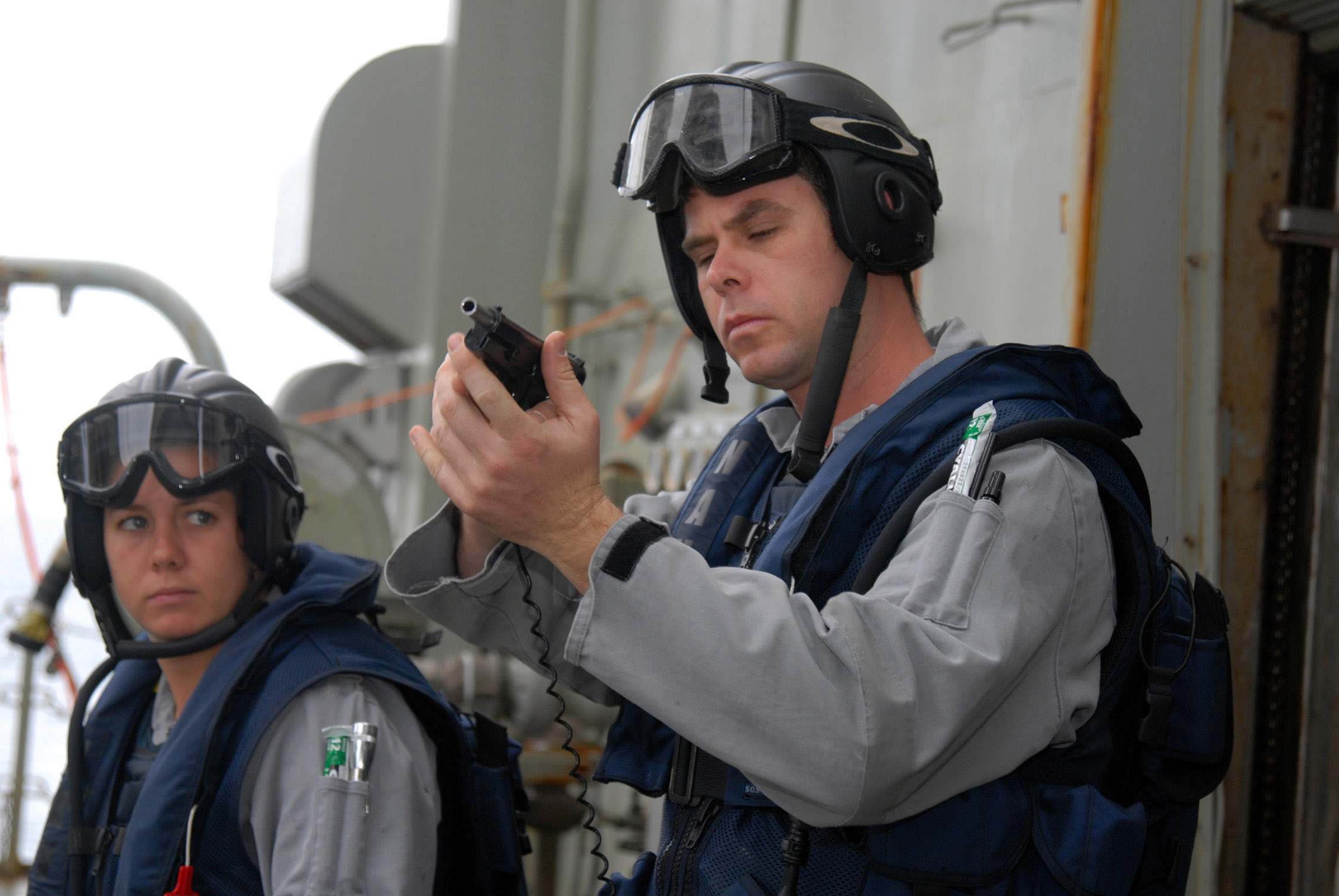 070623-N-4124C-004 SHOALWATER BAY, Australia (June 23, 2007) - A Sailor of Royal Australian Navy ship HMAS Kanimbla (L 51) checks the safety on his weapon as part of visit, board, search and seizure training. Kanimbla, along with sailors and army personnel of the Australia Defense Force, have been working in conjunction with U.S. military personnel as part of exercise Talisman Saber 2007 (TS07). TS07 is an Australian and U.S. joint and combined exercise designed to prepare both nations in crisis action planning and the execution of contingency operations. The exercise is meant to improve interoperability, combat readiness and strengthen the Australian-U.S. alliance. Expeditionary Strike Group 7/Task Force 76 is the Navy’s only permanently forward-deployed amphibious force, based in Okinawa, Japan, with an operating detachment in Sasebo, Japan. U.S. Navy photo by Mass Communication Specialist 2nd Class Adam R. Cole (RELEASED)